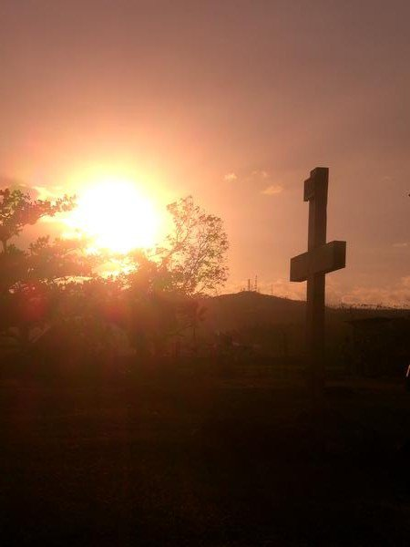 A cross stood in memory of the people who died from the mudslides in Albay, Bicol when Reming hit the province in 2006.